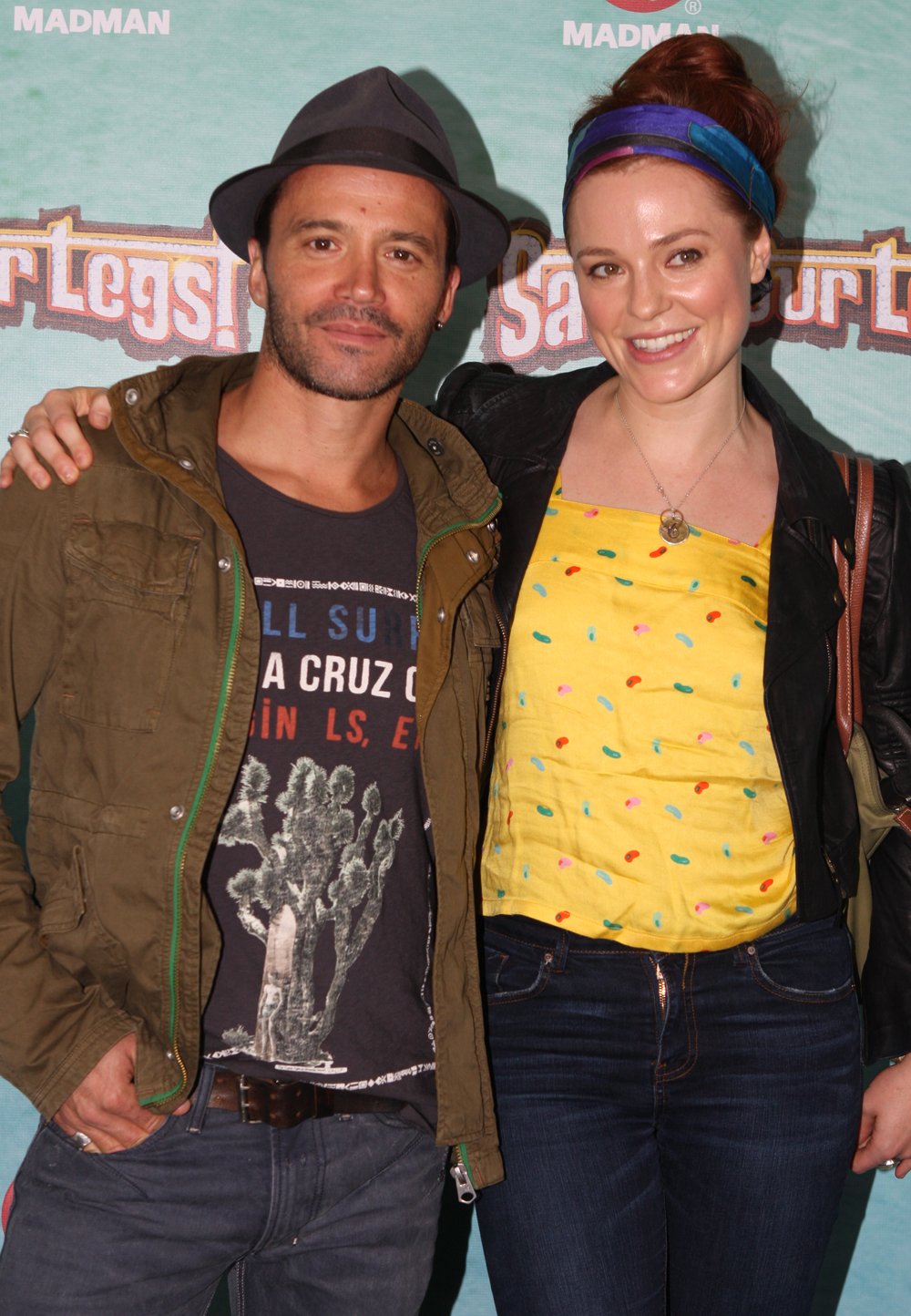 Damian Walshe-Howling and Ella Scott Lynch in February 2013 at Save Your Legs movie premiere: Sydney, Australia.